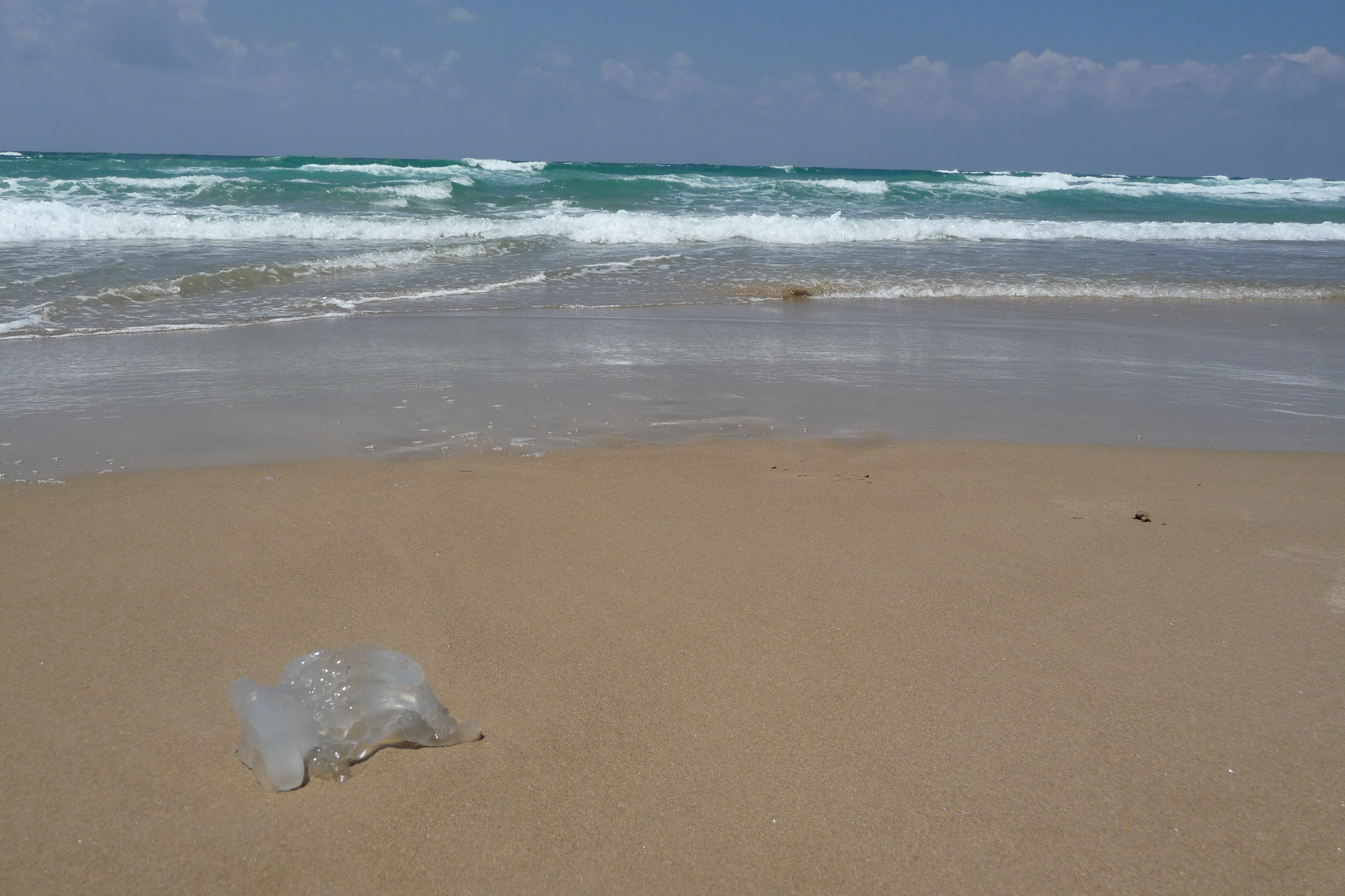 Animals of Israel